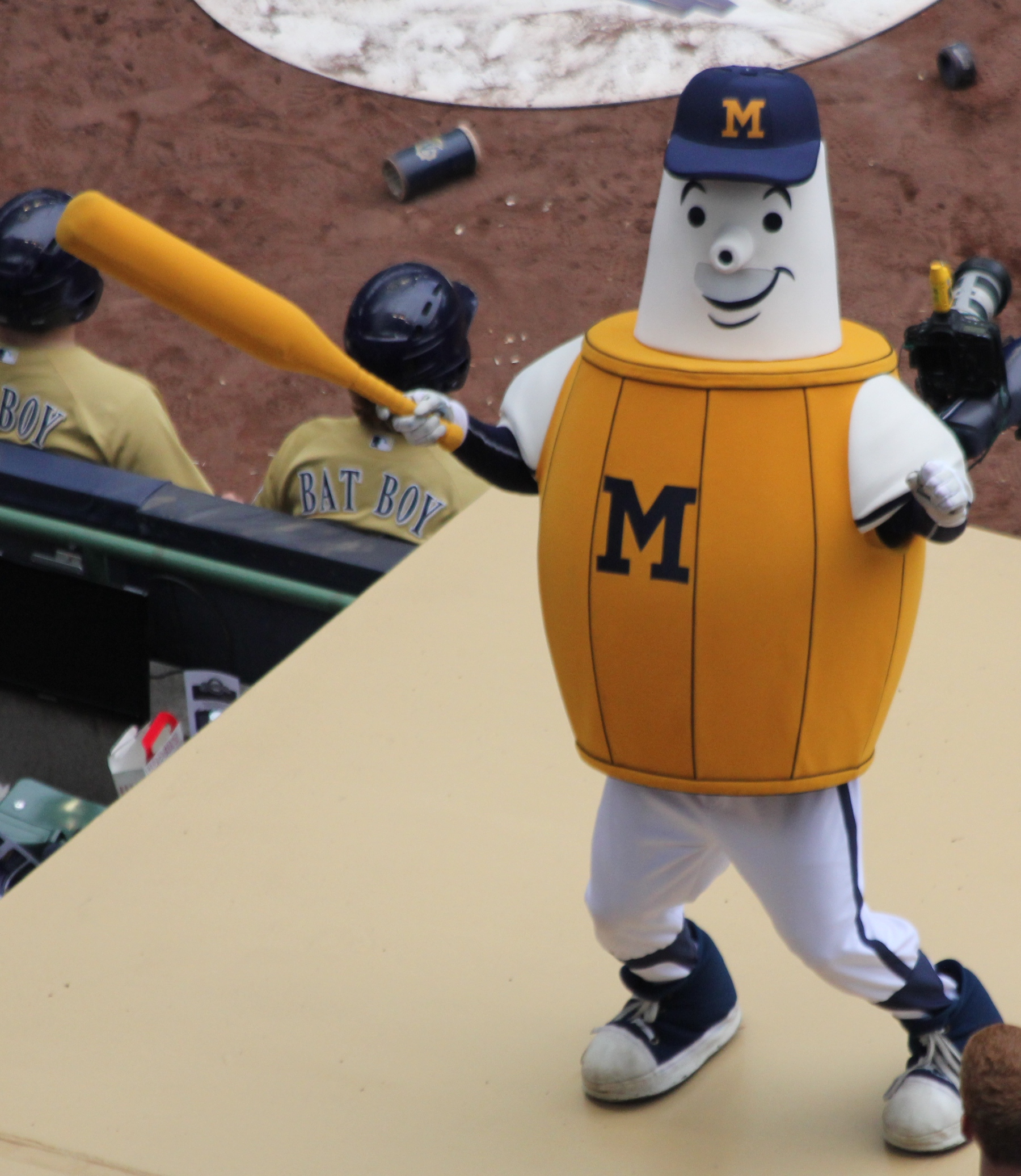 Milwaukee Brewers mascot Barrelman on top of the team's dugout.